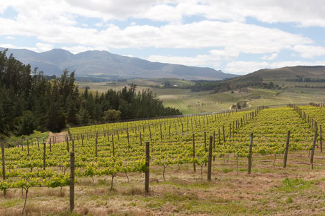 Vineyard Photo at Charles Fox Cap Classique Wine Estate Coordinates: 34°14′14.9″S 19°4′42.5″E